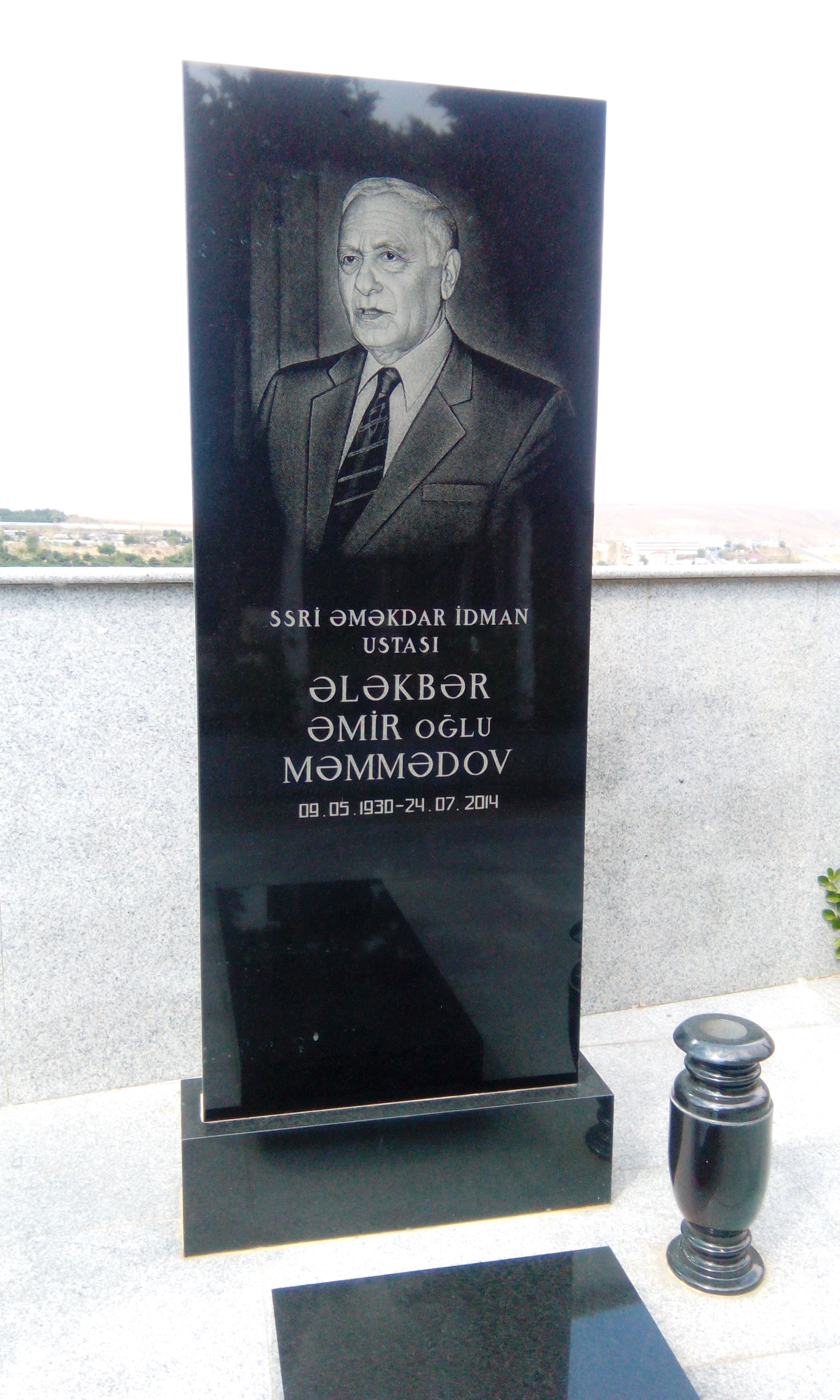 Grave of Alakbar Mammadov in Baku, Azerbaijan.